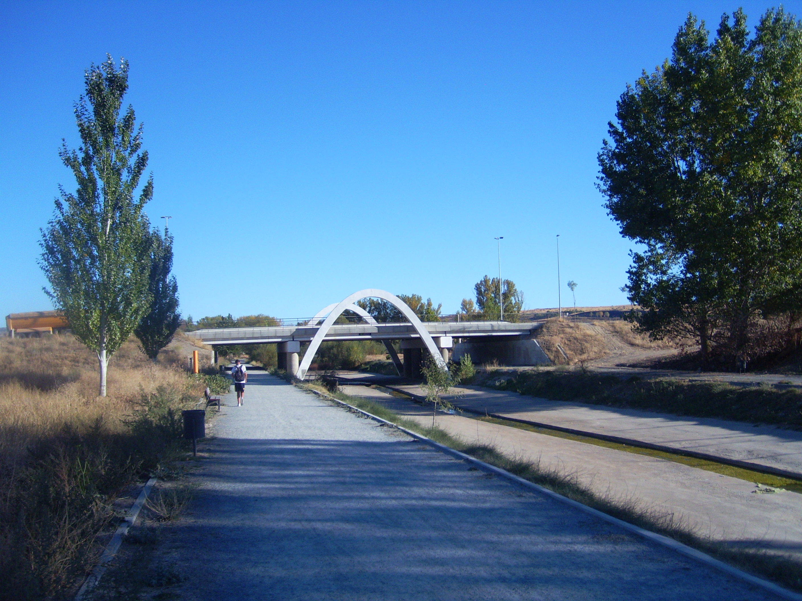 Chico river (Ávila) tributary to the Adaja river.